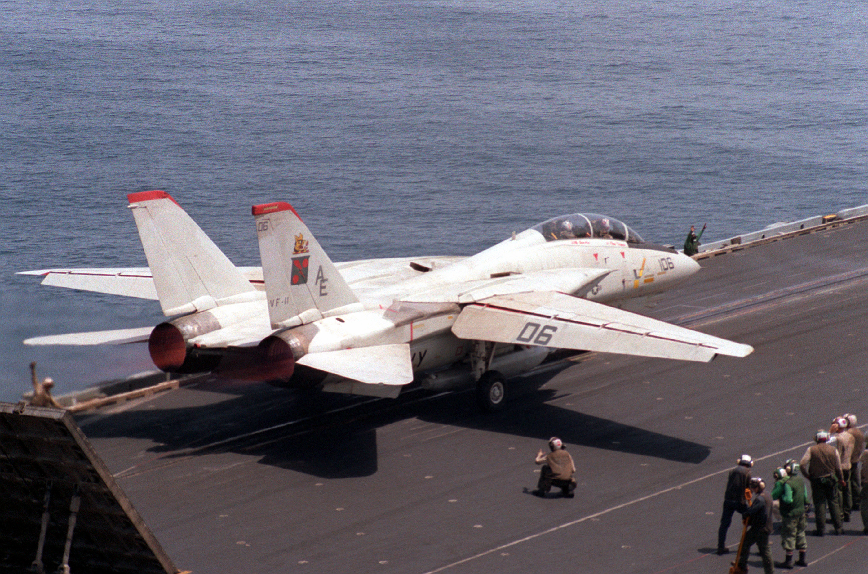 A U.S. Navy Grumman F-14A Tomcat from Fighter Squadron 11 (VF-11) "Red Rippers" is launched from the aircraft carrier USS Forrestal (CV-59). VF-11 was assigned to Carrier Air Wing 6 (CVW-6) aboard the Forrestal for a deployment to the Mediterranean Sea and the Indian Ocean from 25 April to 7 October 1988.